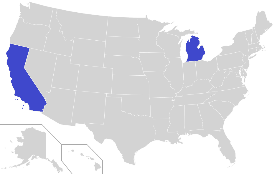 Map of the US highlighting states that as of 2014 are not "Accredited Free" from cattle herds with Bovine Tb.